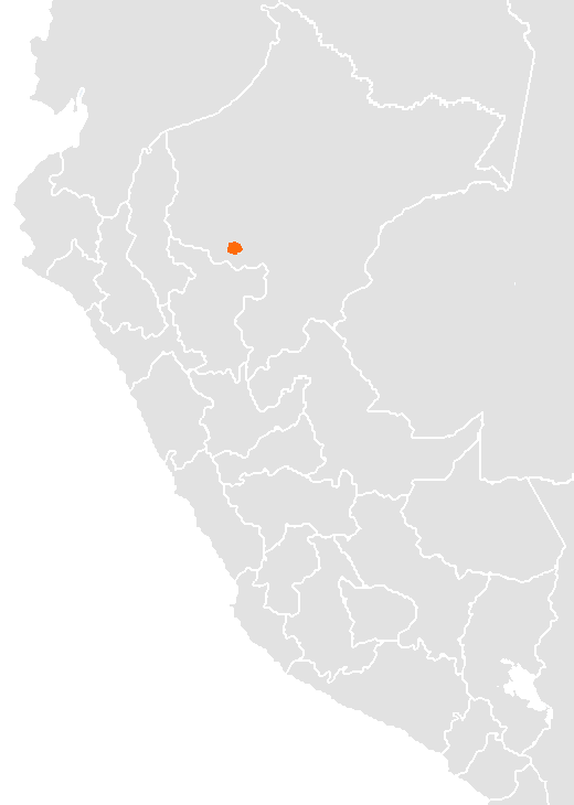 Munichi language in North Perú, Sourcre: on data of Mary Ruth Wise "Small languages families and isolates in Peru" in The Amazonian Languages, Dixon & Alexandra Y. Aikhenvald (eds.), Cambridge: Cambridge University Press, 1999. p. 307-340. Also Ethnologue map of Peru